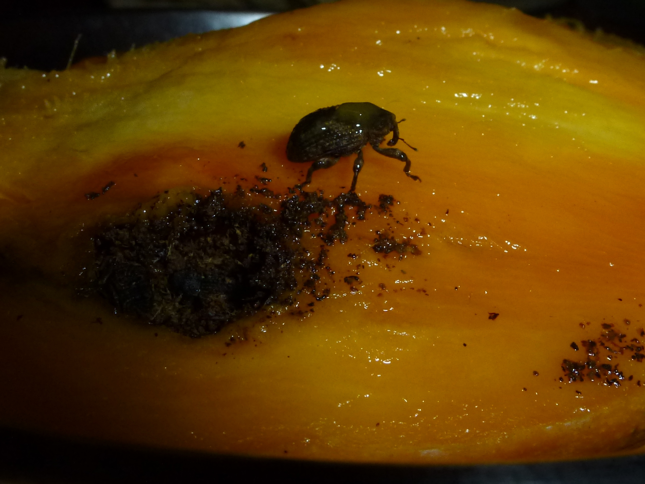 Mangoo seed weevil Sternochetus mangiferae from South India